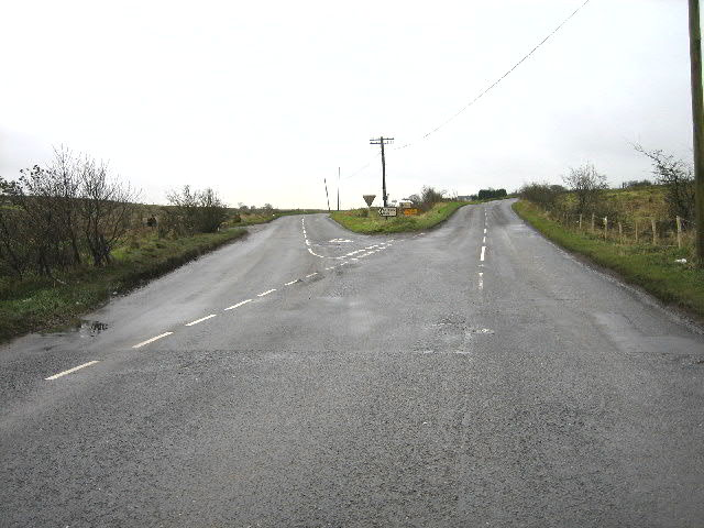 Hairpin bend is on the Dundrod Circuit, which has been used since 1953 for the Ulster Grand Prix motorcycle races. The bikes come down the right-hand road and make about a 340 degree turn.